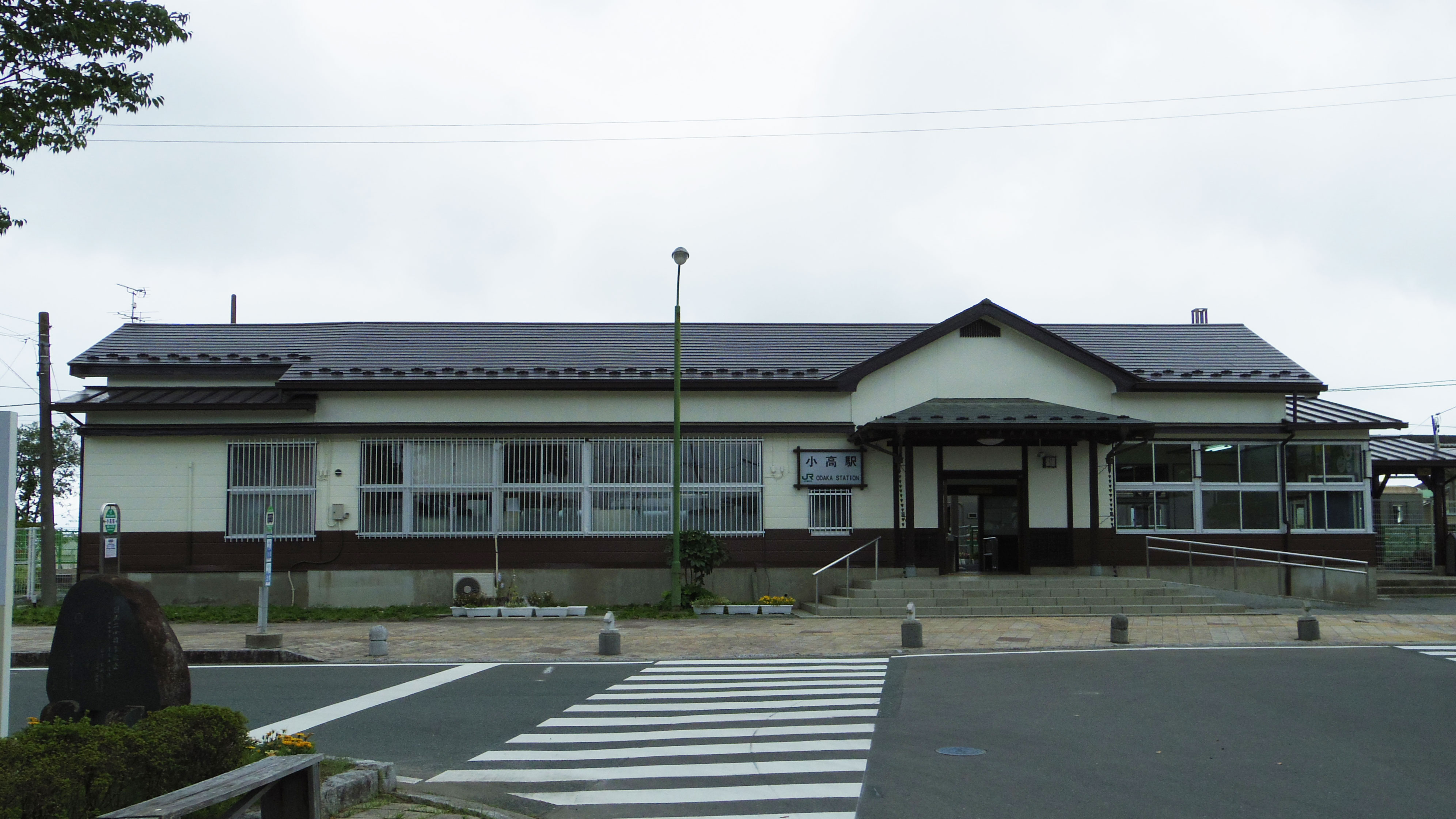 Odaka Station on the Jōban Line in Fukushima Prefecture, Japan